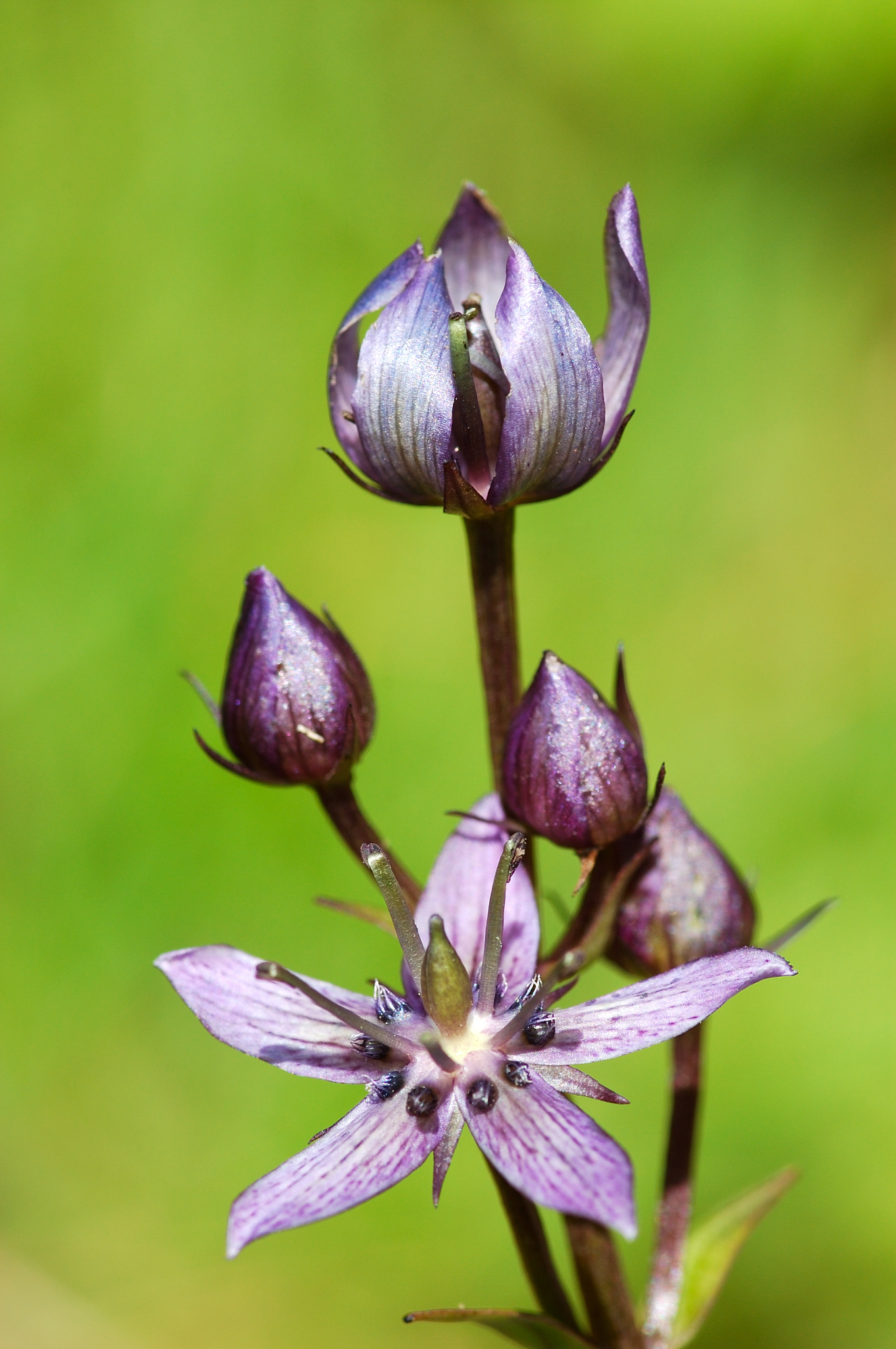 Swertia perennis, picture was taken in the bog Salwiden near Sörenberg LU, Entlebuch region, Switzerland